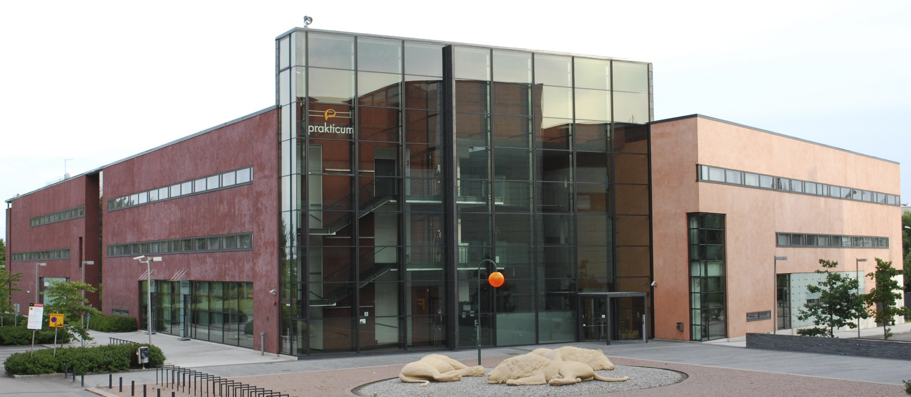 A vocational school Prakticum.